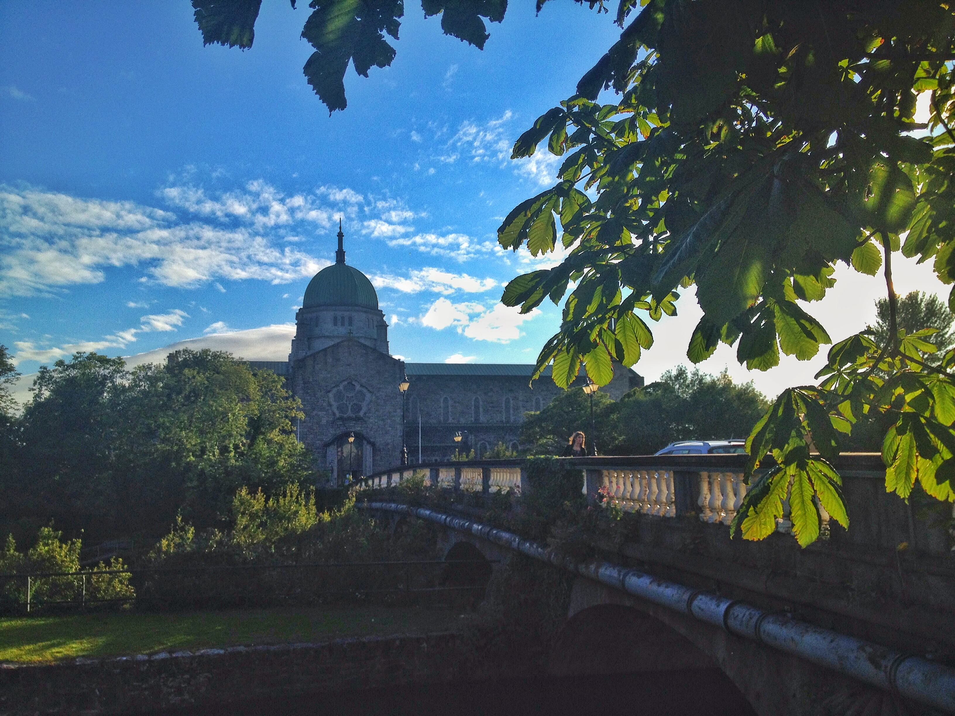 View of the Salmon Weir Bridge looking east, Galway, Ireland